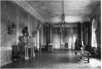 The First Antechamber of the suite, in the Royal Castle of Budapest.